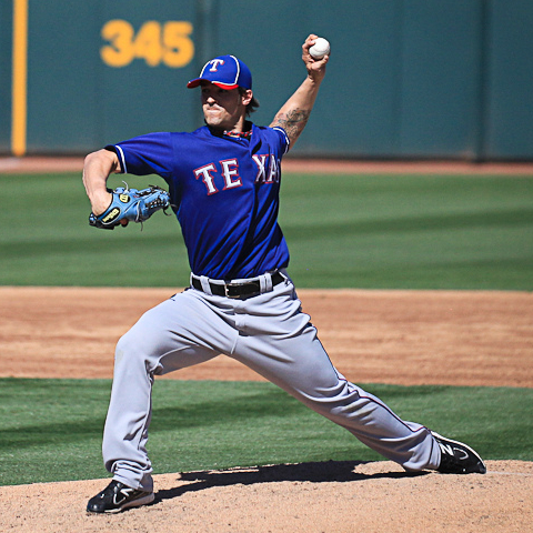 C. J. Wilson